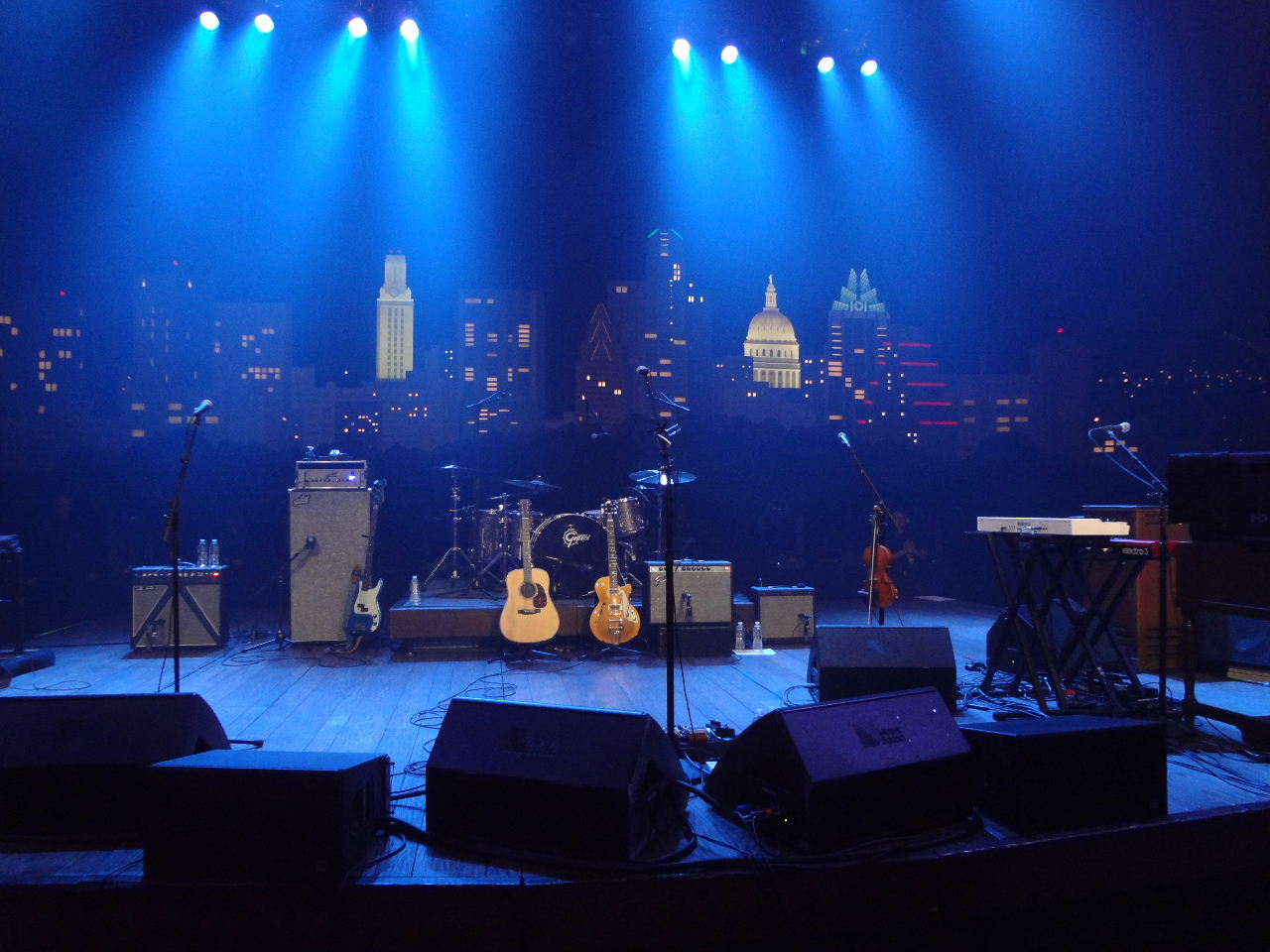 ACL Live stage during a KLRU taping of Austin City Limits for PBS. Photo by Ron Baker.